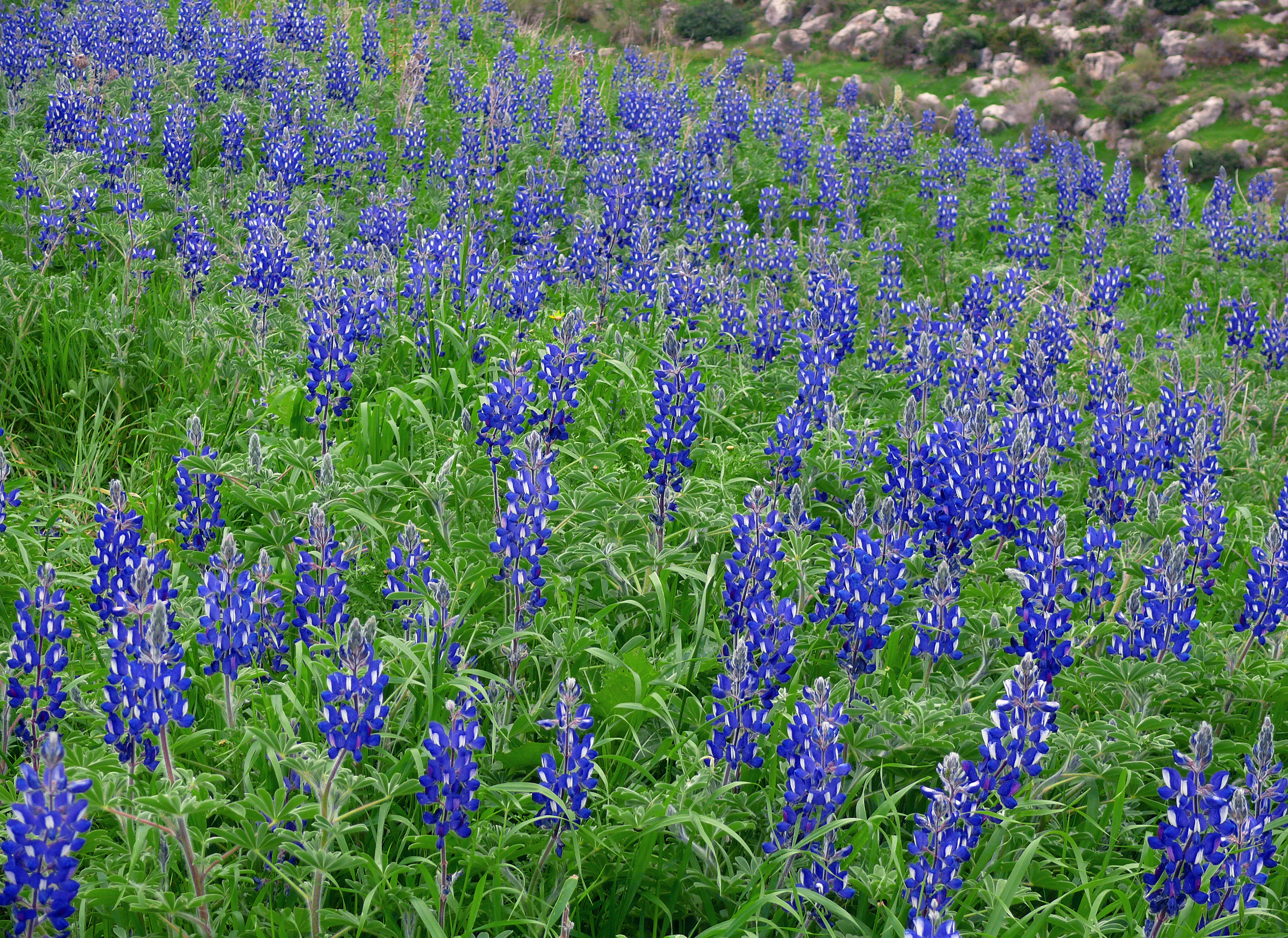 Lupinus pilosus תורמוס ההרים Emek HaEla, Israel עמק האלה, ישראל Rare carpets of blue Lupinus pilosus in Emek HaEla, Israel, February 2013 This photo, released under free use license for the behalf of common knowledge, is dedicated to Naomi Oppenheimer. You may use it freely for any purpose but please give credit to me (write: "photo by Zachi Evenor") and link to this Flickr page whenever possible. Thank you.